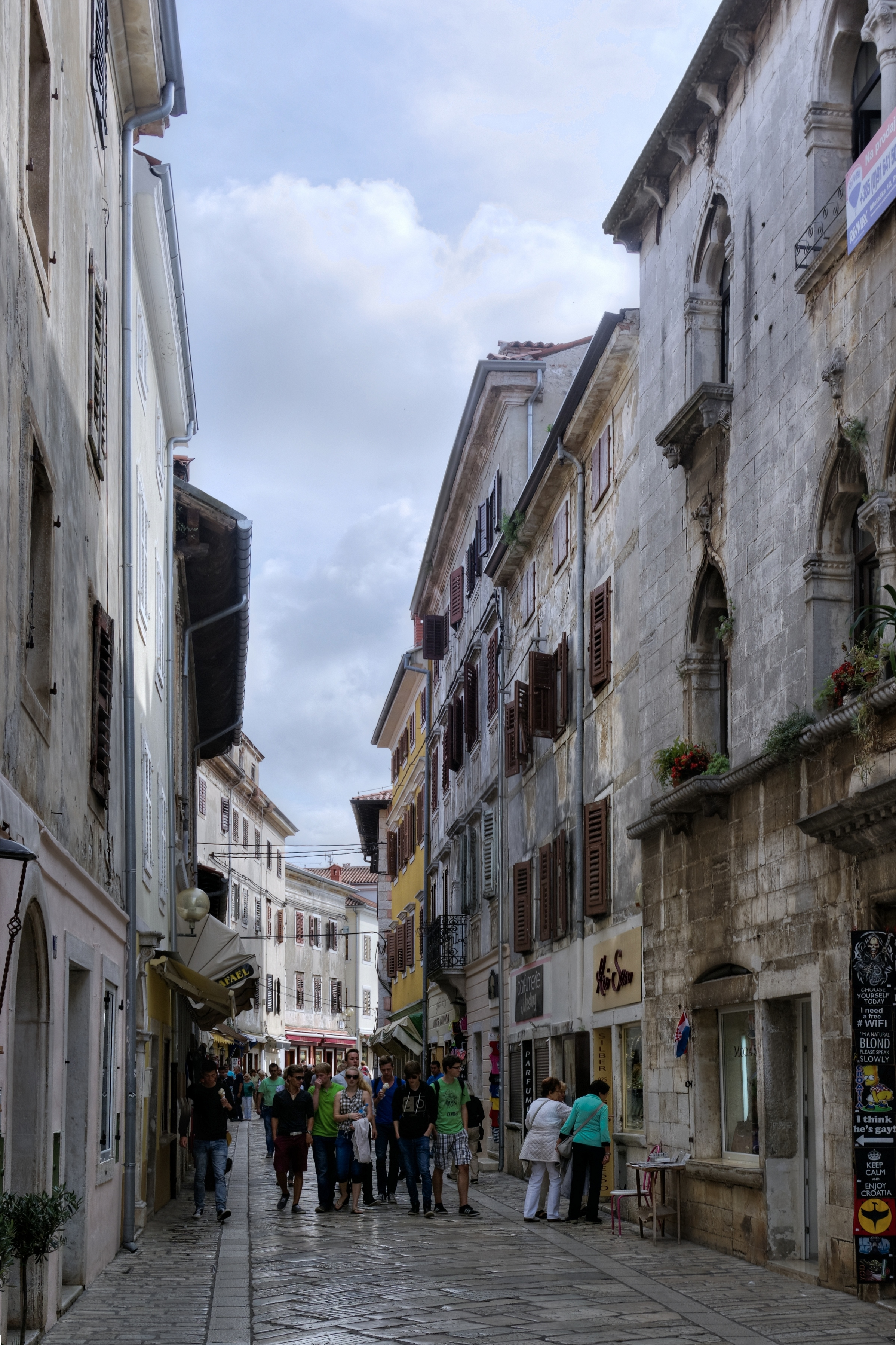 Croatia, Poreč, Decumanus